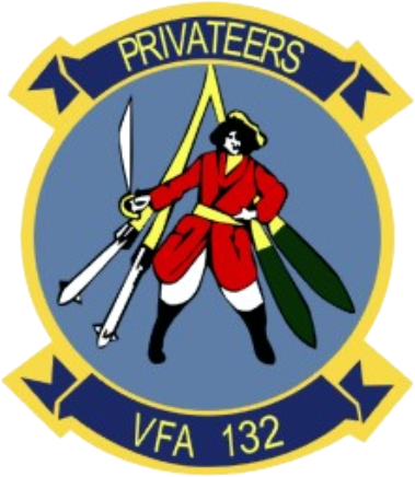 Patch of the U.S. Navy Strike Fighter Squadron 132 (VFA-132) "Privateers".